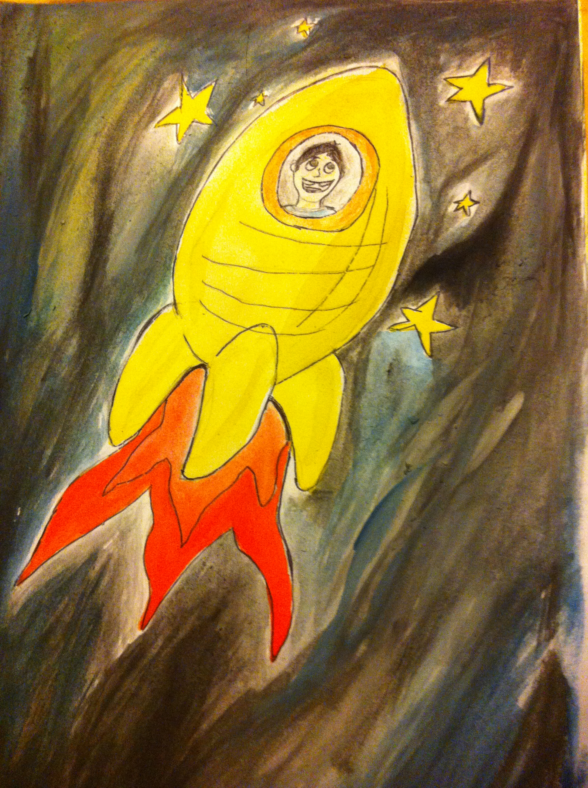 'Let's Fly Away' was created by Jessica Taylor from the lyrics of the song 'Adventure' which was written by Rhonda Merrick and composed by Ritchie Swann for British television series for children, The Brilliant Book.